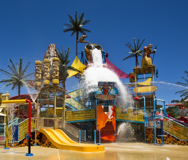 At the time of launch this $3.5m colossus was the largest rain fortress in Australia